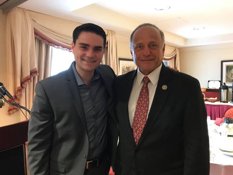 Ben Shapiro delivered an in-depth, succinct & memorable message to the Conservative Opportunity Society this morning. And then backed it up with an amazing Q&A session to hundreds of Capitol Hill staff members this afternoon. Ben Shapiro gives us hope for conservatism in the future. Thank you Ben Shapiro